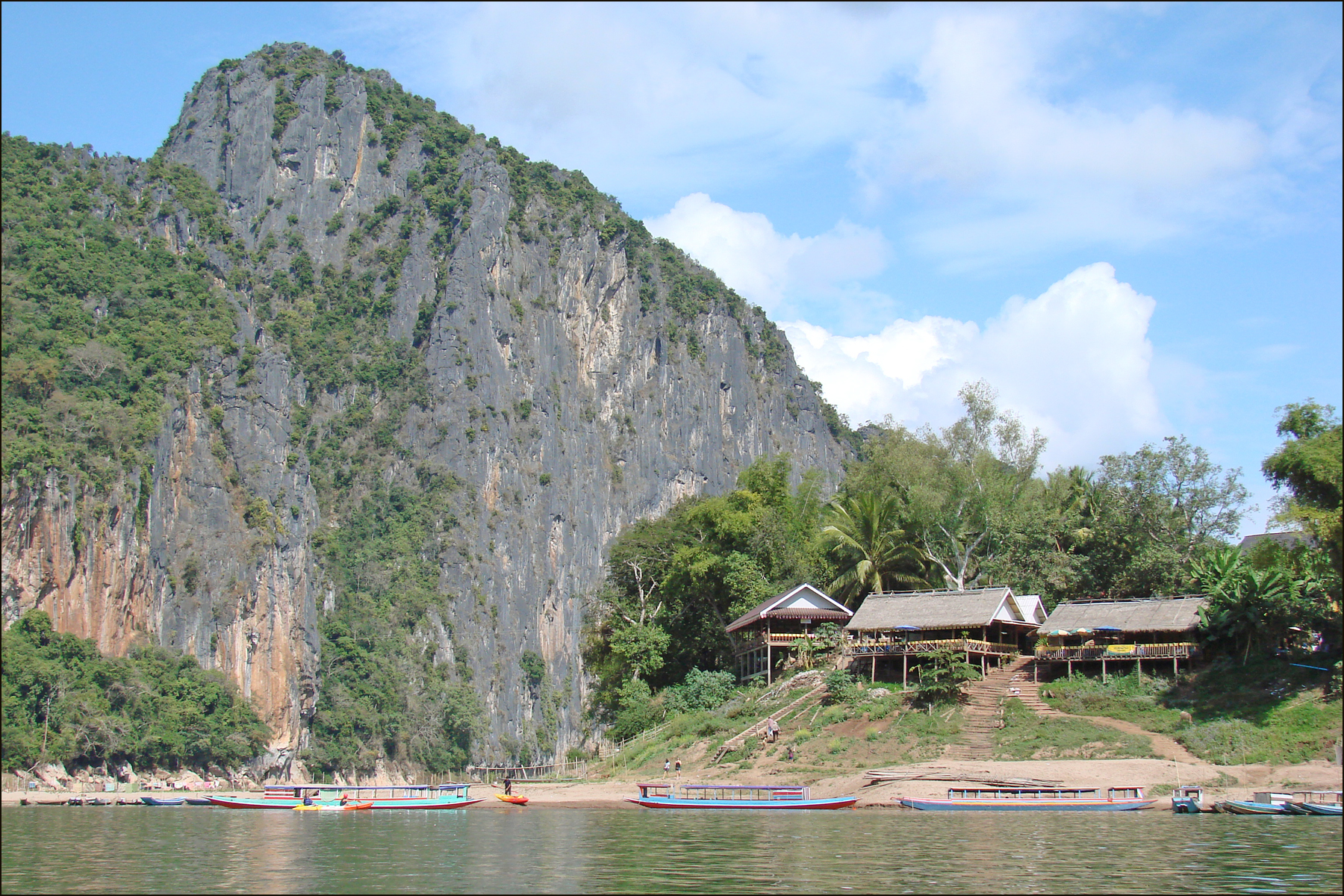 Nam Ou River confluence in Mekong, Laos, 25 Km north of Luang Prabang in Laos, near Pak Ou